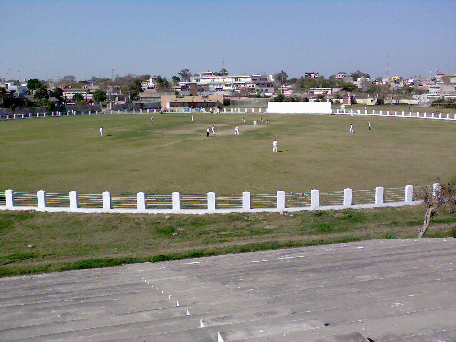 District Cricket Stadium Jeulum